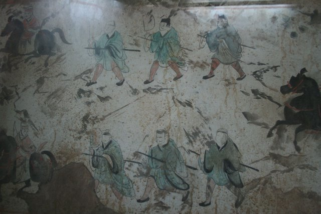 A section of a Chinese Eastern Han Dynasty (25–220 AD) fresco of 9 chariots, 50 horses, and over 70 men, from a tomb in Luoyang, China, which was once the capital of the Eastern Han.